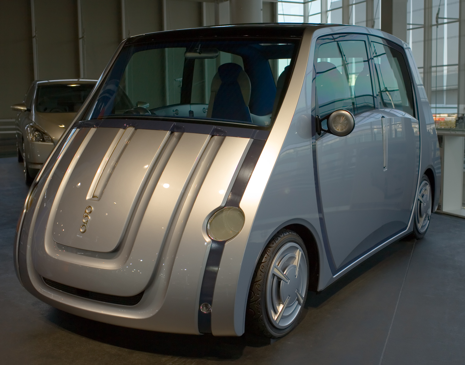 The Toyota POD 2001 concept car on display in Tokyo.